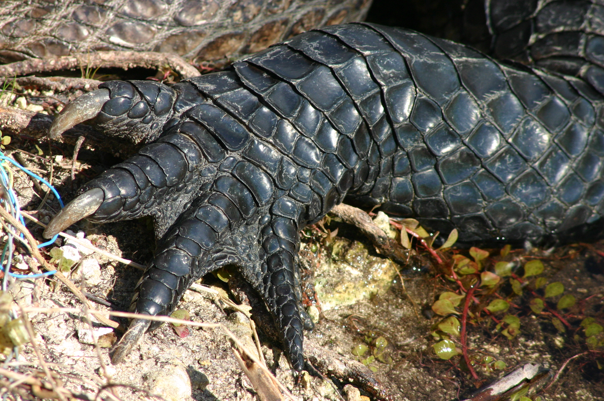 Alligator Paw (left forelimb) (Alligator mississipiensis)